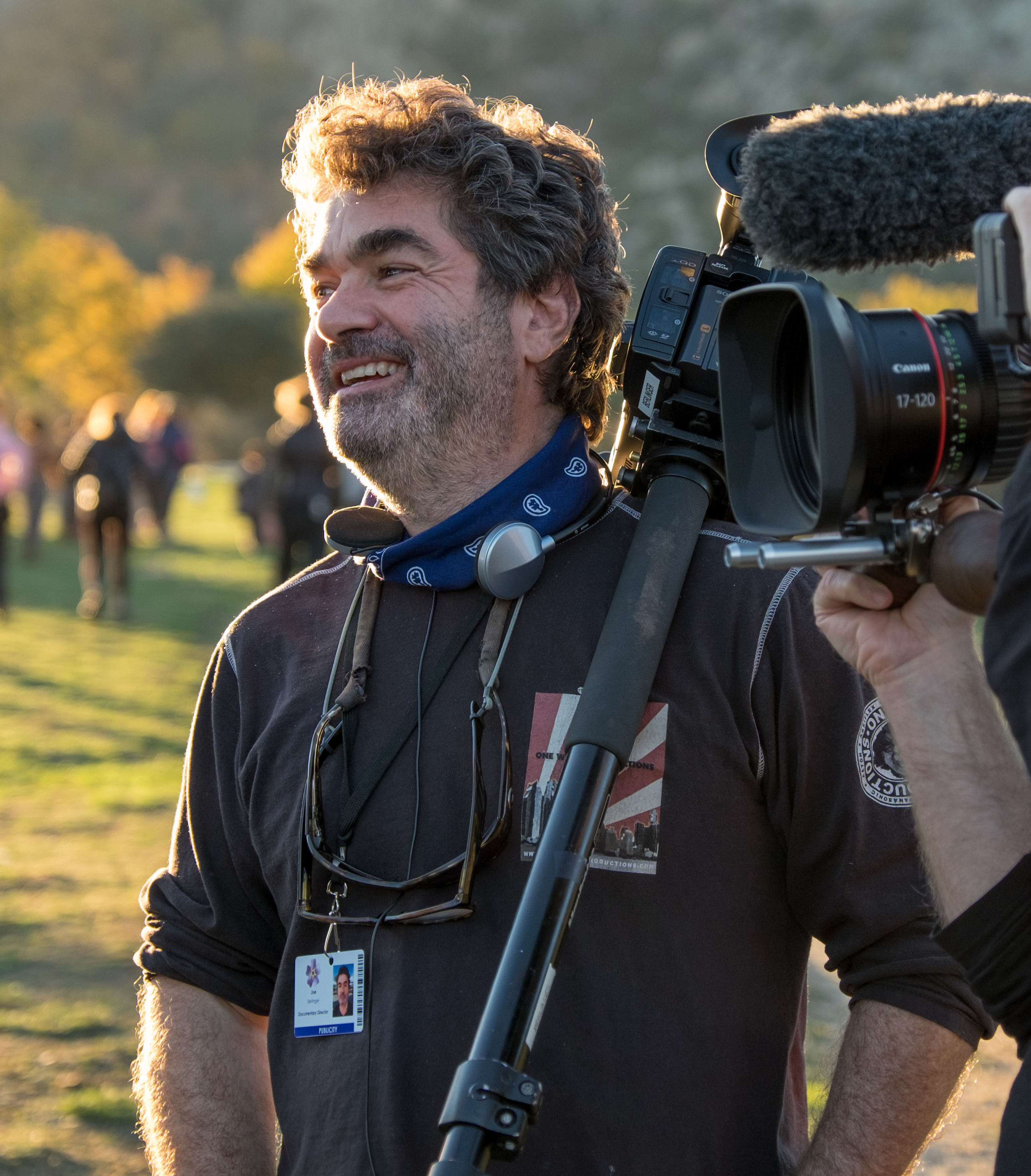 Joe Berlinger shooting Intent to Destroy with DP Bob Richman.